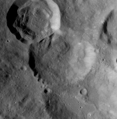 Van Gent is at centre of image, while the more prominant-looking crater at top-left is Van Gent X